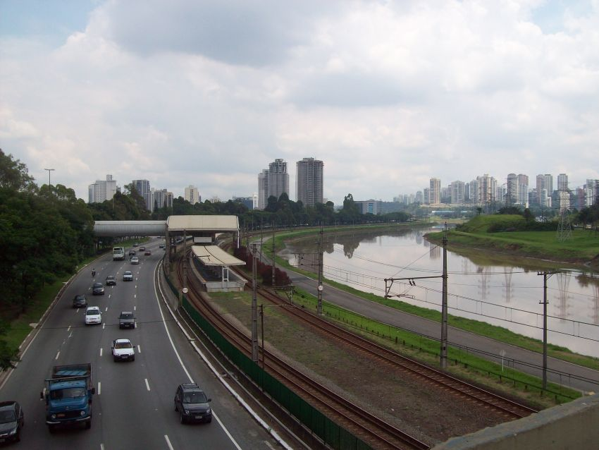 Marginal and Pinheiros river, in São Paulo City.